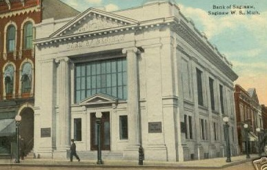 Bank of Saginaw c1910 Court St, Saginaw MI